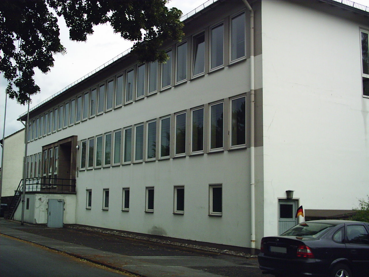 Courthouse Amtsgericht Lennestadt check usage